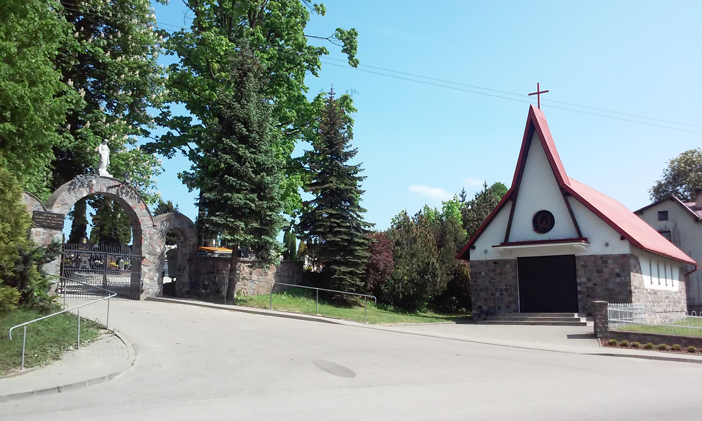 Sierakowice (Pomerania), the gate of the cementary